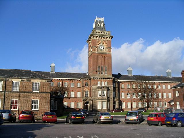 Old Walton Hospital Judging by the sign saying "Show homes", this looks like it's being converted into apartments.